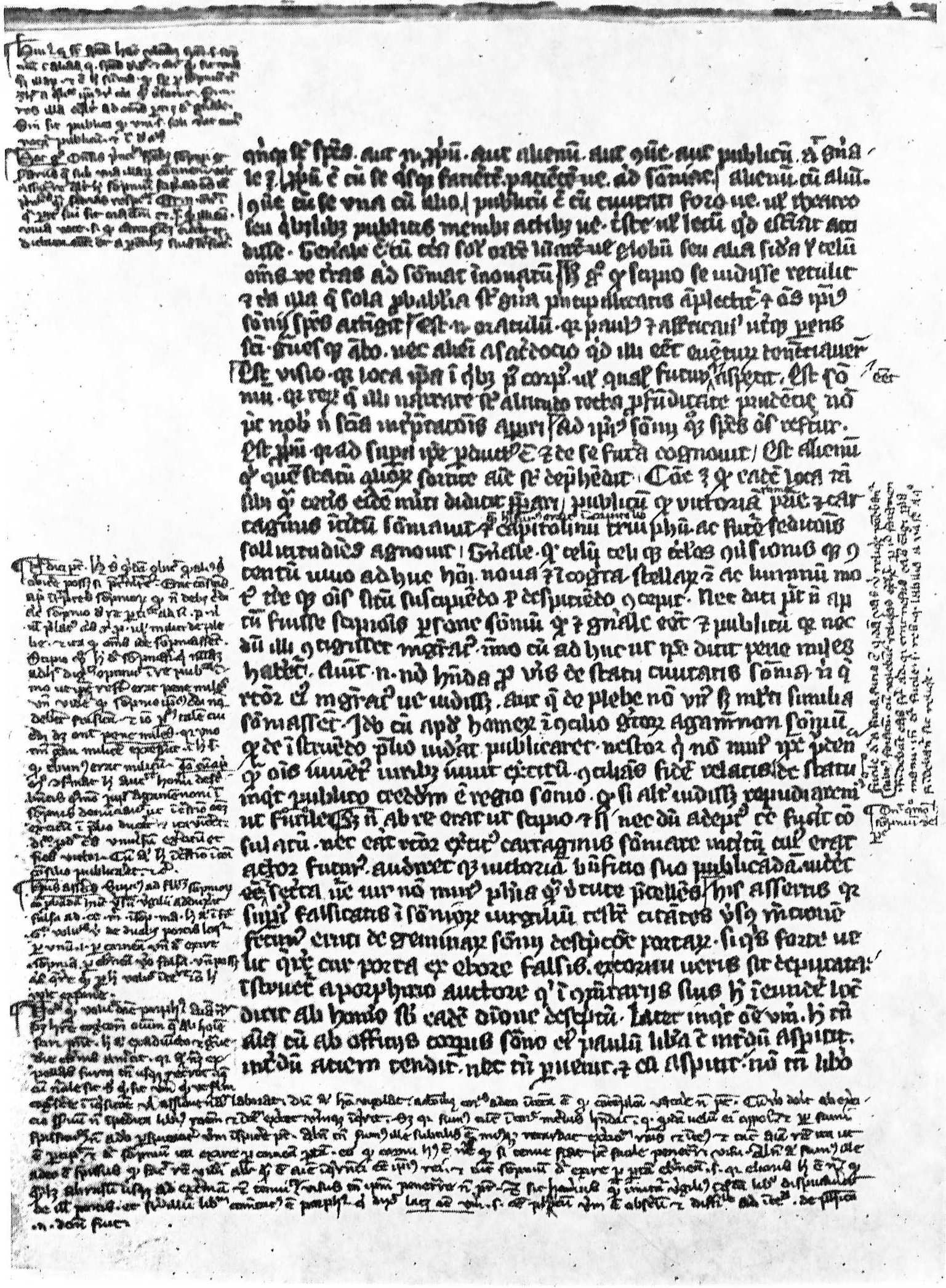 Berthold of Moosburg on Macrobius in Basil. F IV 31, f. 5v.